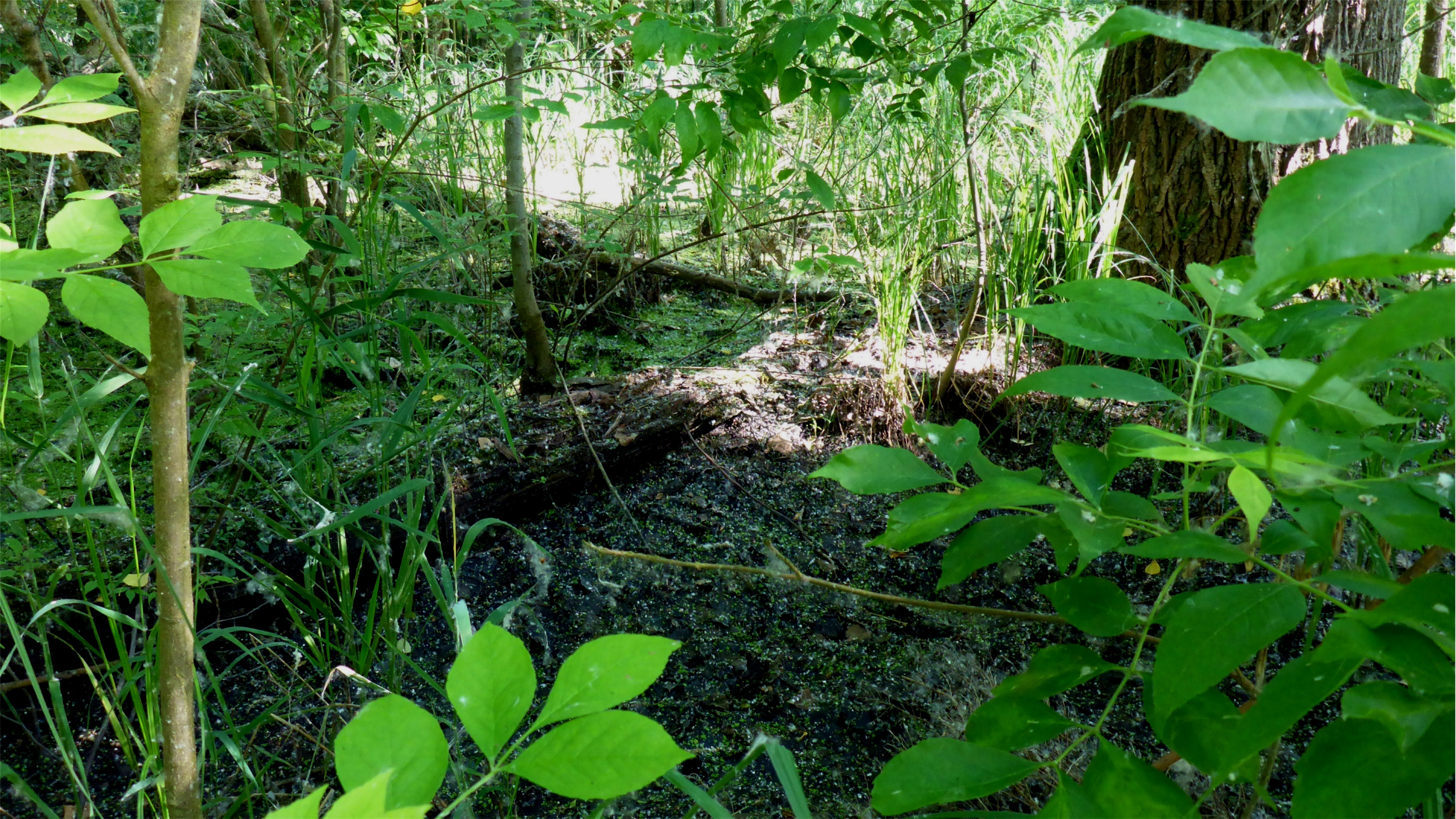 Landschaftsschutzgebiet „Elfmorgenbruch“ is a Protected landscape area in Baden-Württemberg, Germany.